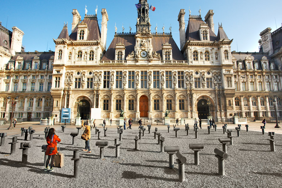 Hotel de Ville Paris Grey concrete